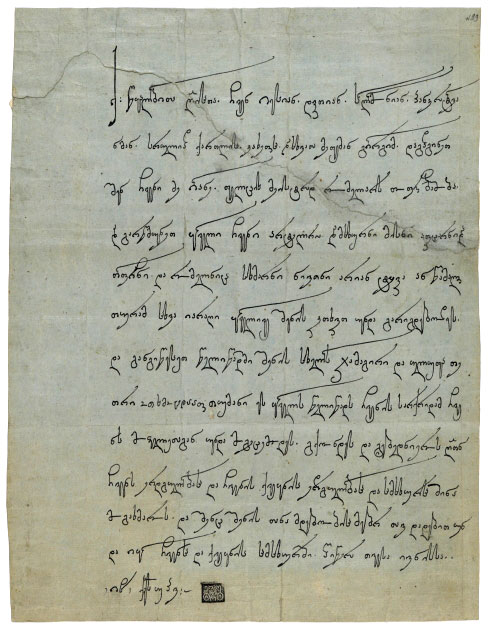 Royal charter of King George XII